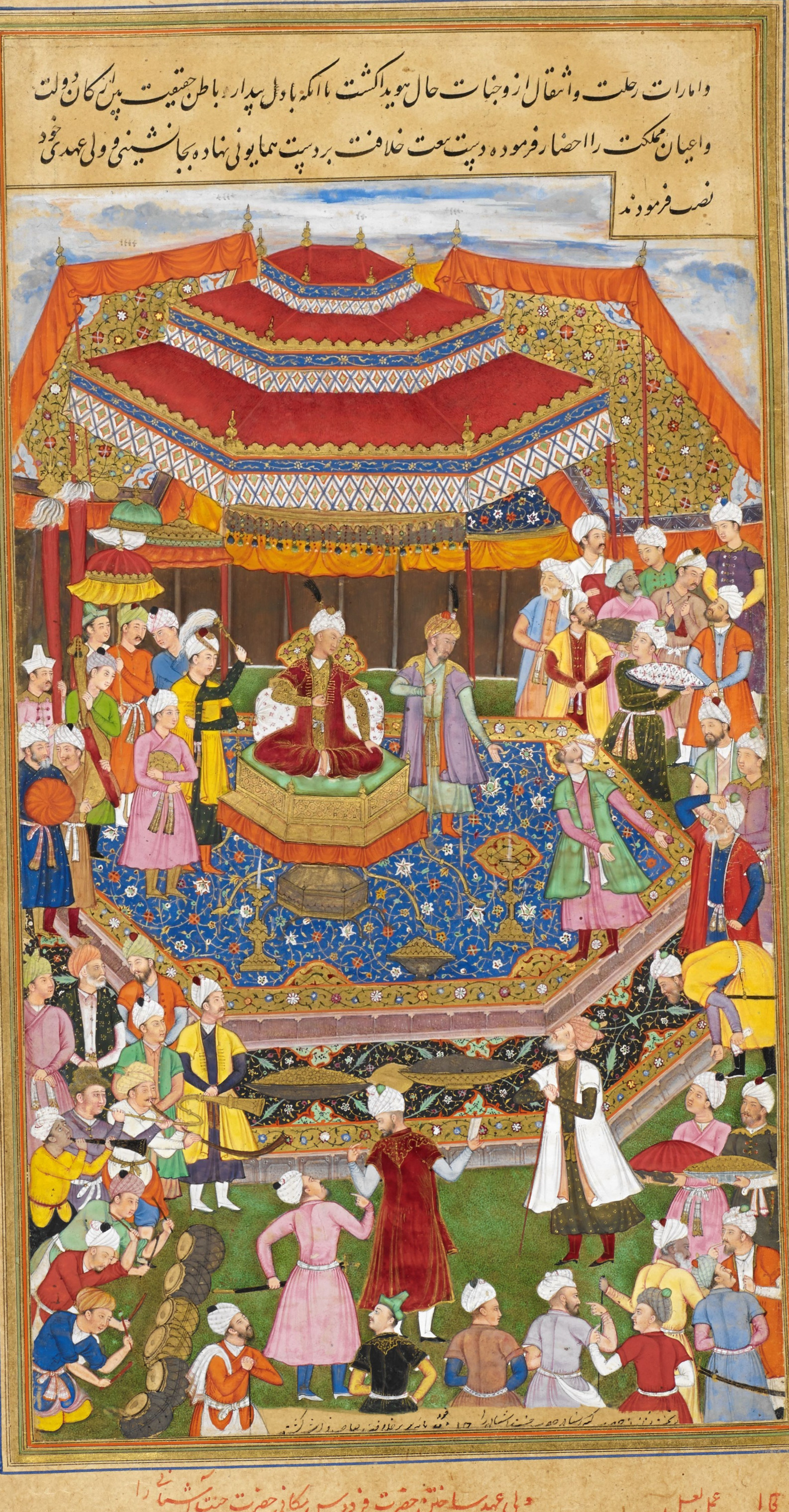 Lal (attr.) Babur makes Humayun his successor in 1530. Akbarnama, 1602-3, f. 53r, British Library, London